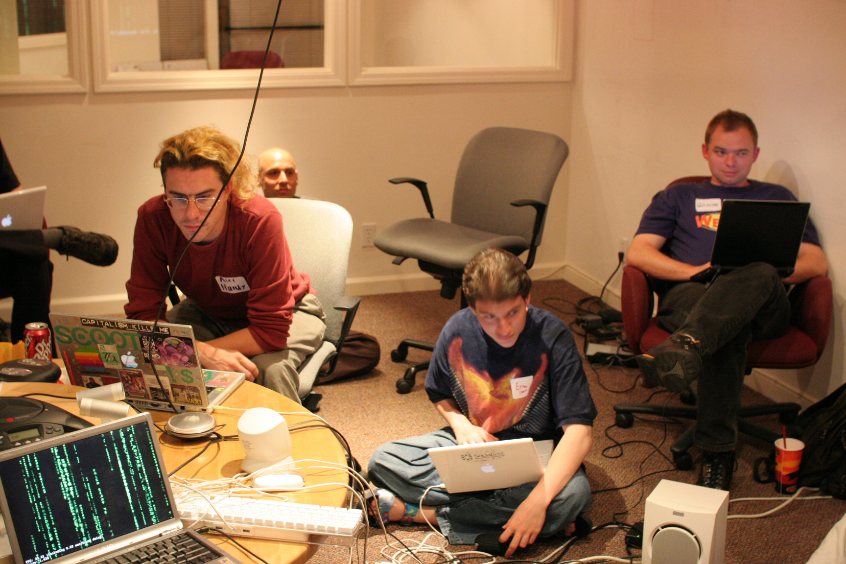 Participants in the first BarCamp in Palo Alto, California, simultaneously comment on, listen to, and follow a presentation on their laptop screens.